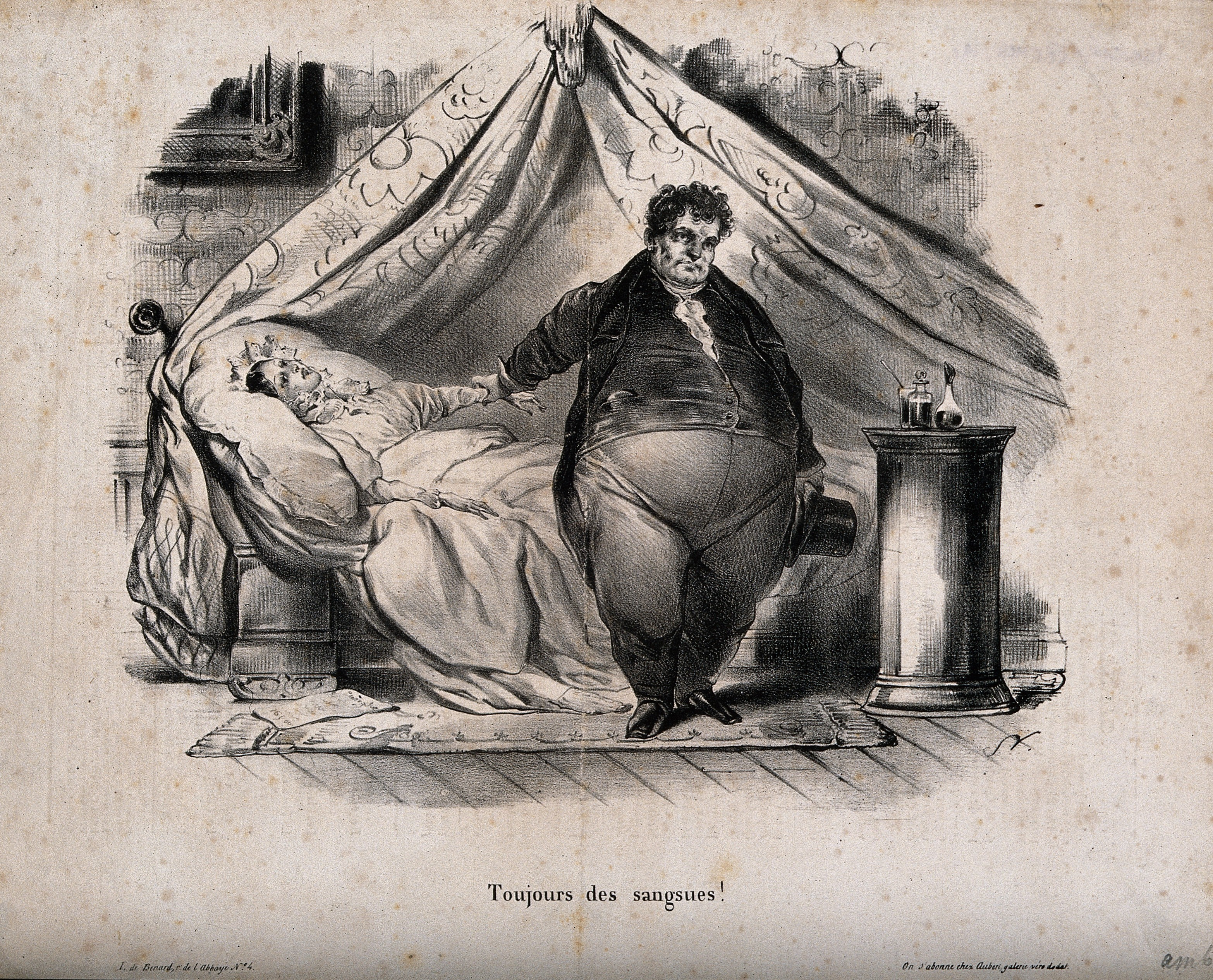 Topic-LCSH: Leeches -- France -- 19th century. Physician and patient. Obesity. Beds. Genre/Technique: Caricatures Lithographs.